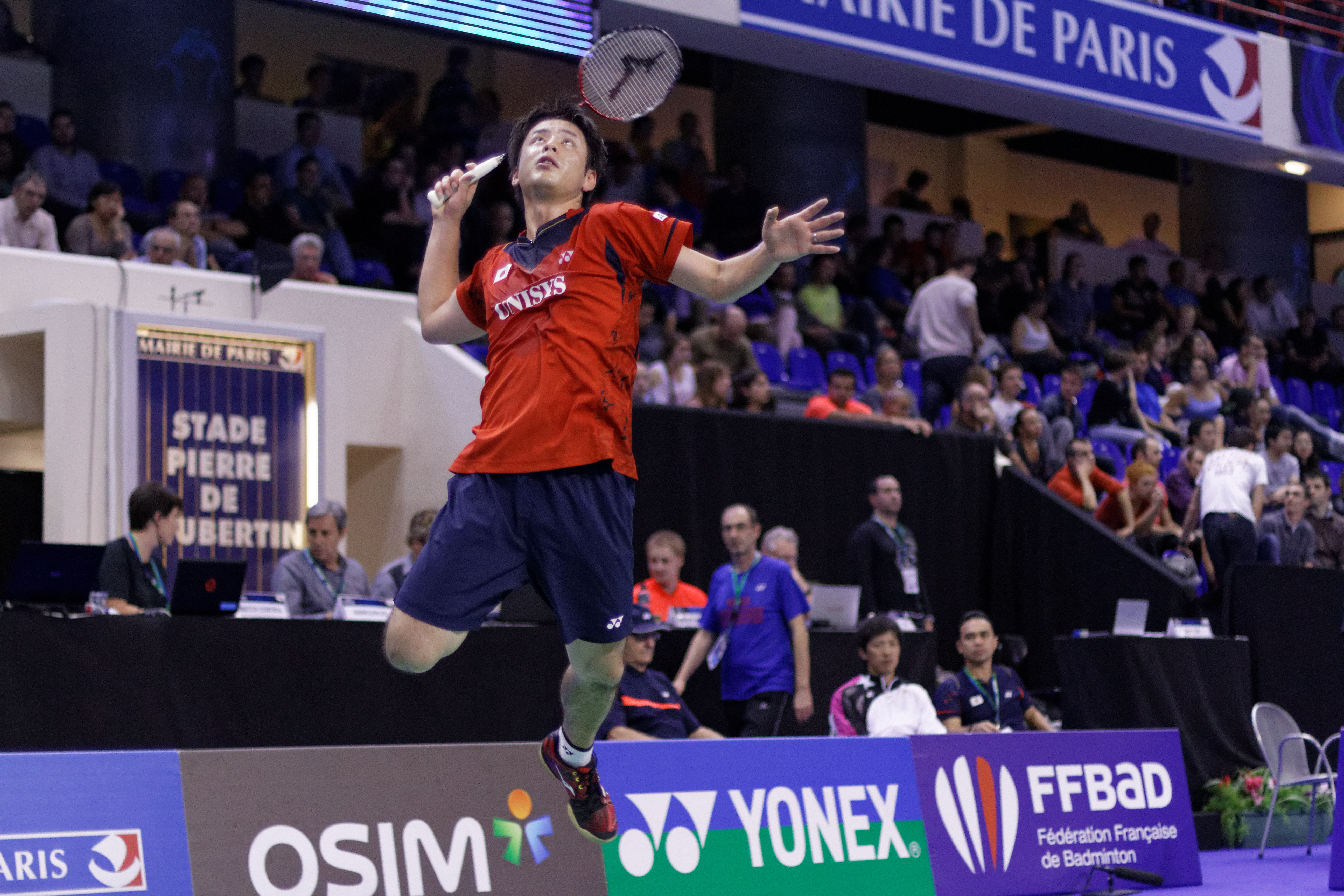 2013 French open. Mixed's doubes quarterfinal. Sudket Prapakamol and Saralee Thungthongkam vs Kenichi Hayakawa and Misaki Matsutomo.